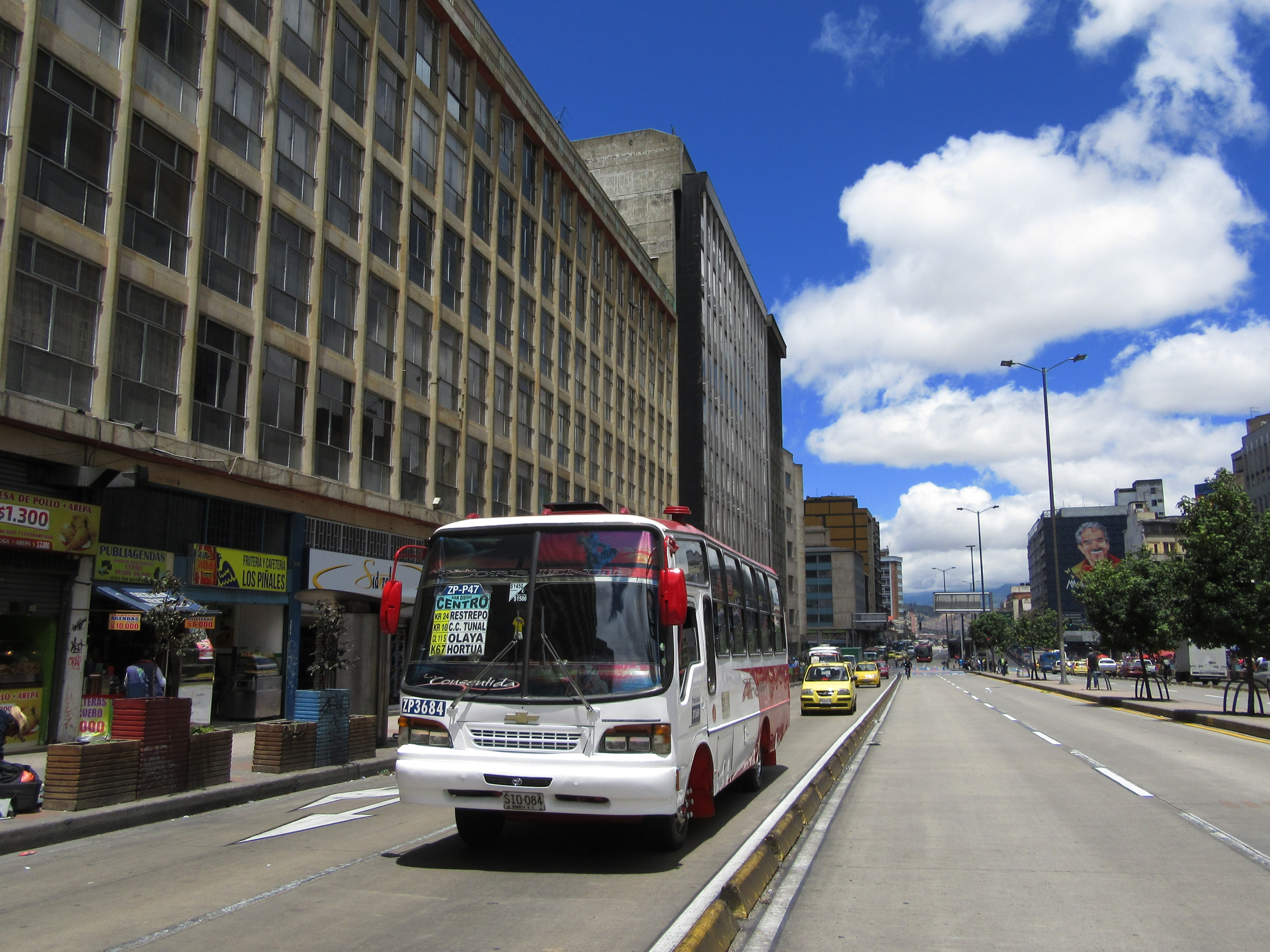 Bogotá